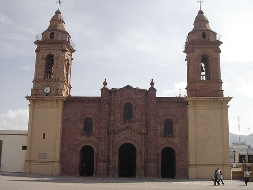 Cathedral of Huajuapan de Leon, built in the 18th century. Quarry Cross extracted from the passage known as la Mount of the Pastor. In the state of Oaxaca, Mexico.